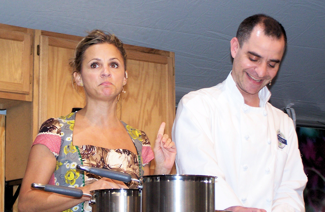 Amy Sedaris and David Rakoff do a cooking demonstration at the Texas Book Festival, Austin, Texas, United States.